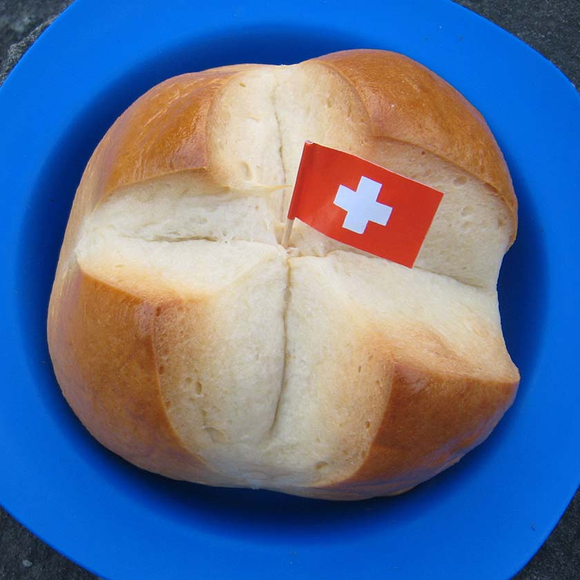 A "1. Augustweggen", a type of bread roll made to celebrate Swiss National Day, 1st August.